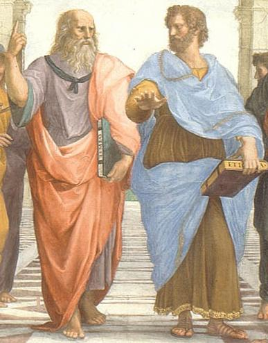 showing Plato (left), pointing up to the ideals, and Aristotle (right), reaching out towards the physical world.